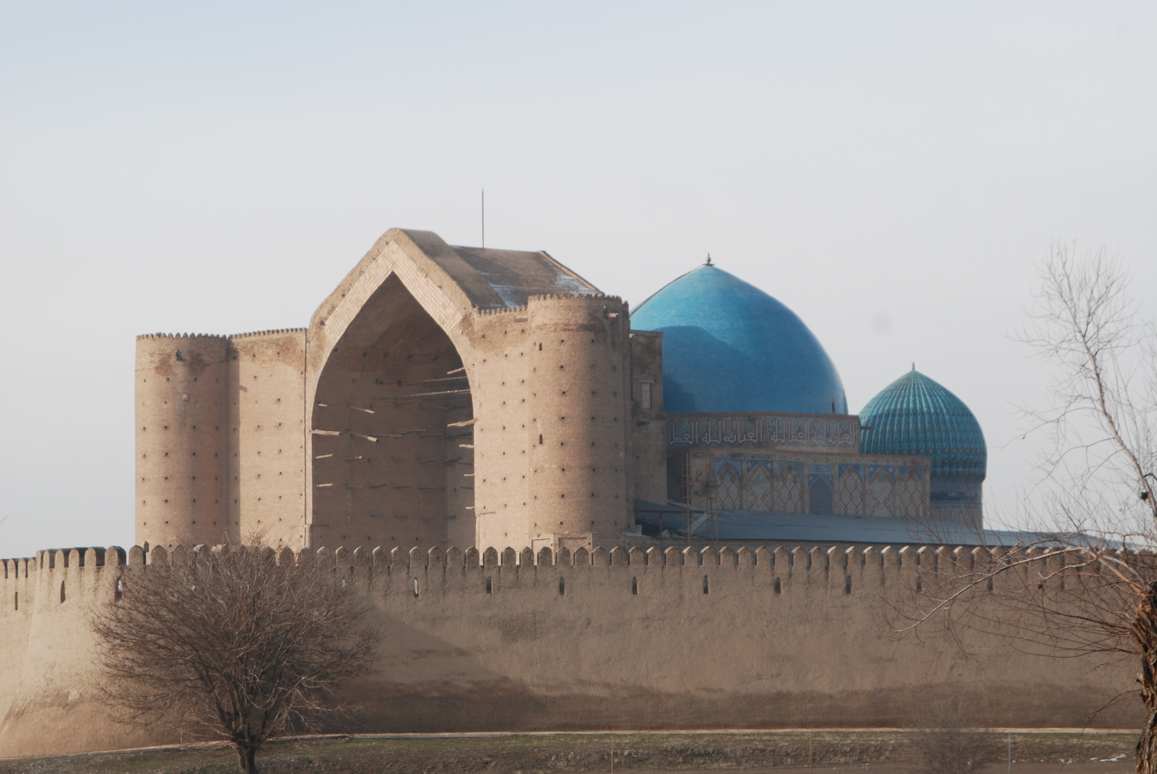 photo by Marcia Newton